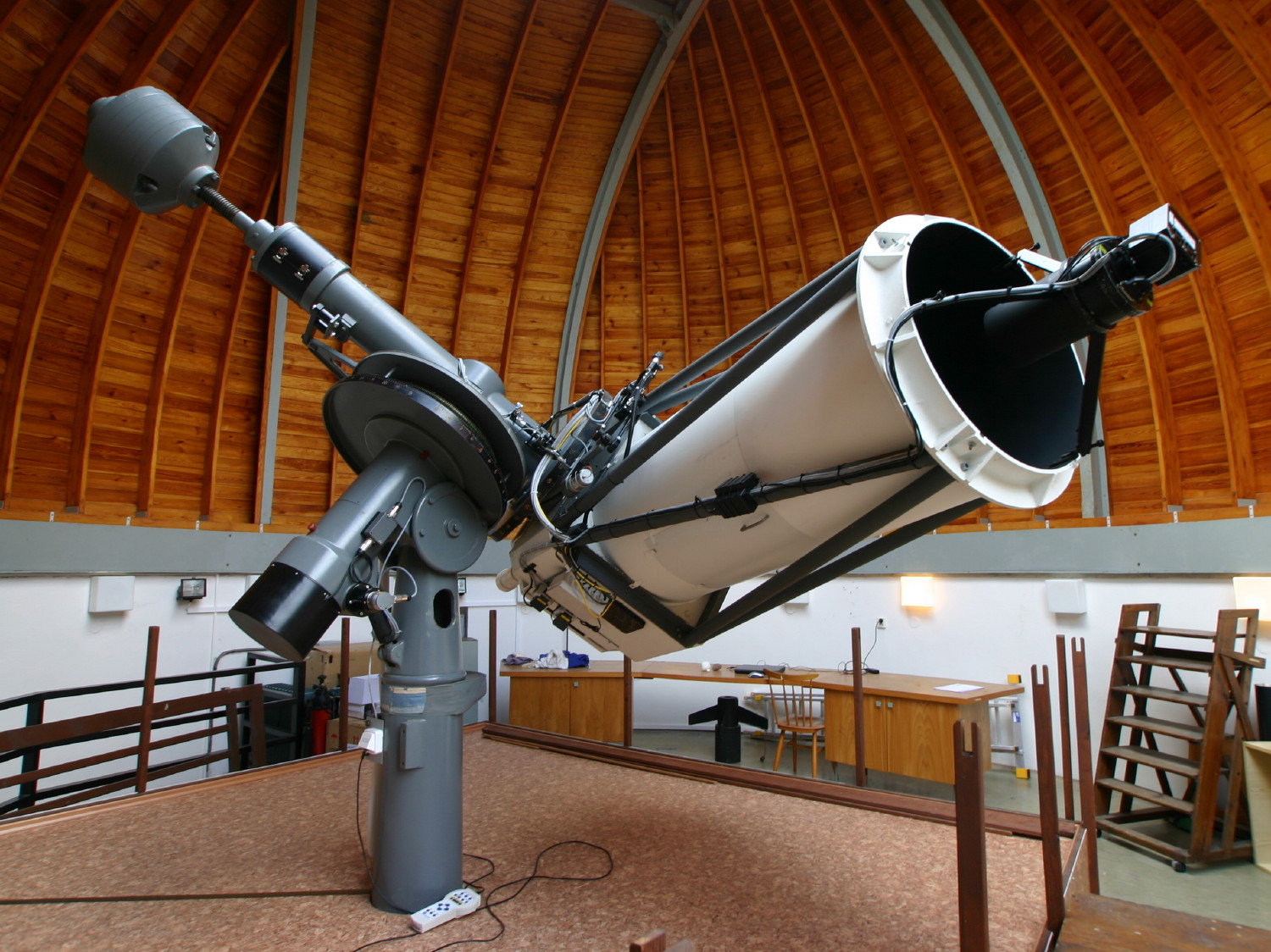 Ondřejov Observatory, Czech Republic: 65cm Reflector